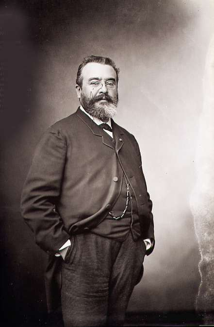 Achille-Adrien Proust